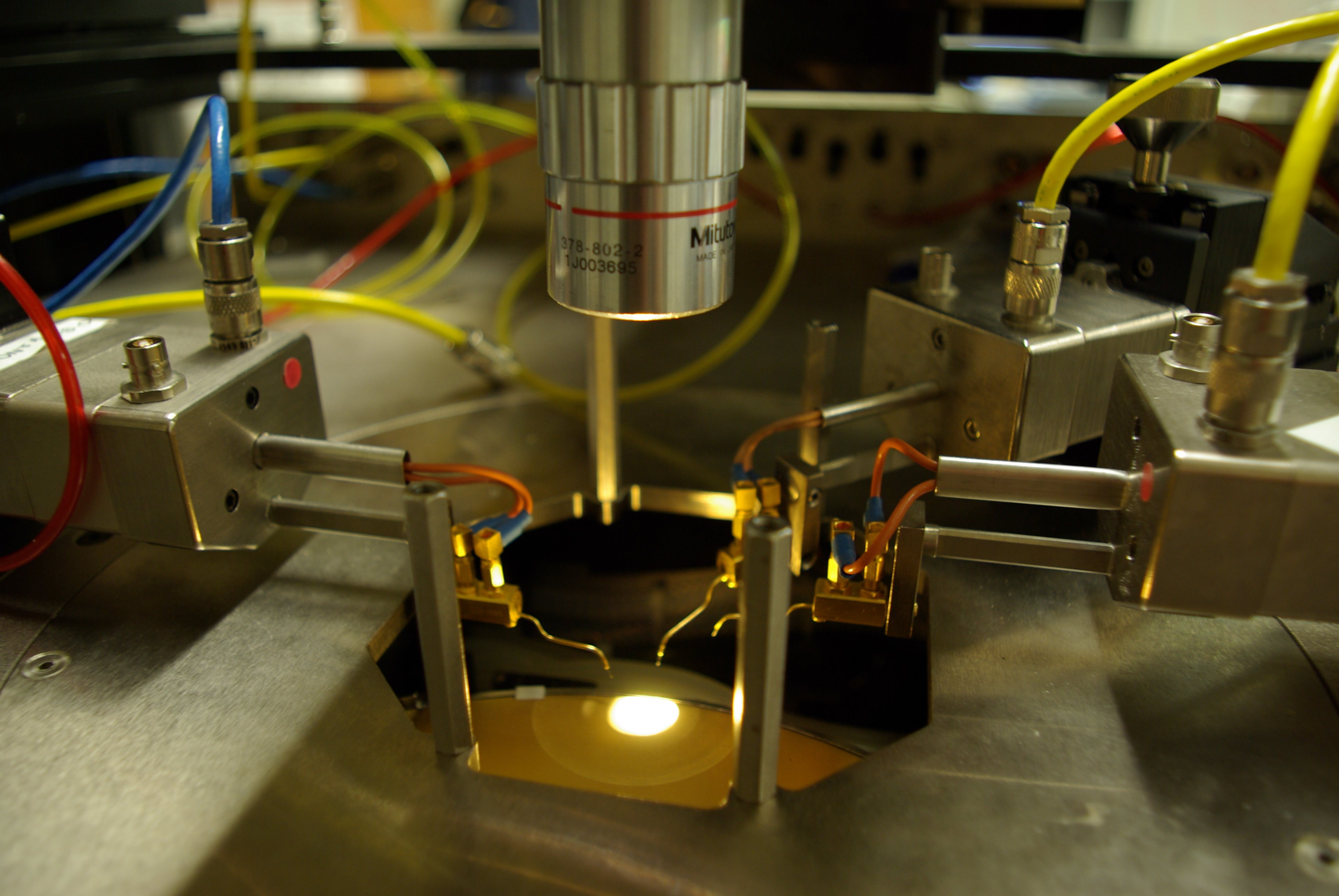 Cascade Microtech mechanical probe station, close-up of probes